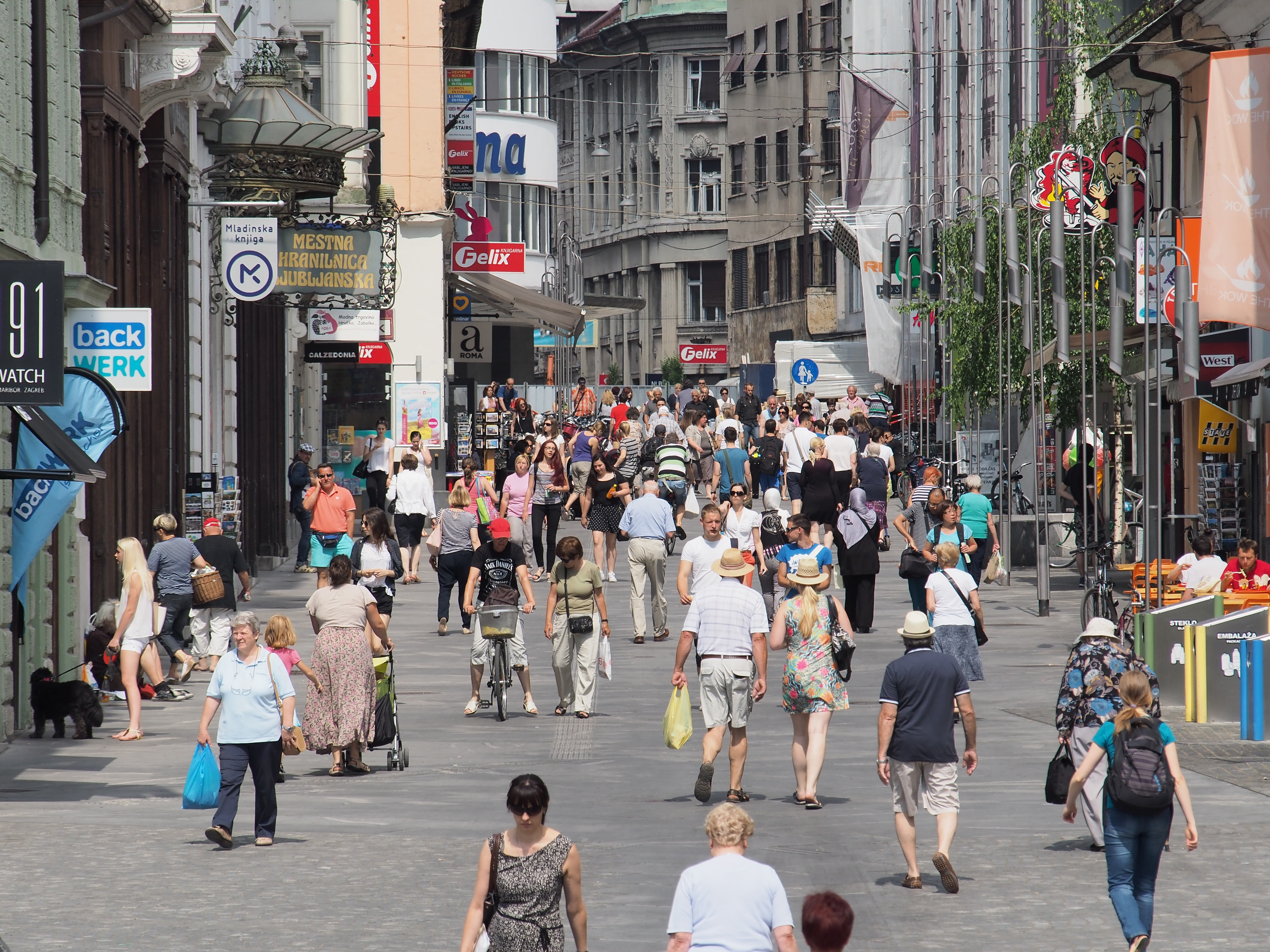 Ljubljana - Čopova street promenade.